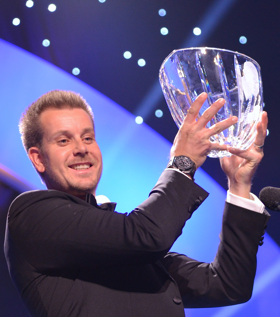 Henrik Stenson wins Jerring Prize 2013 at the Swedish Sports Gala at the Ericsson Globe in Stockholm on January 13, 2014.